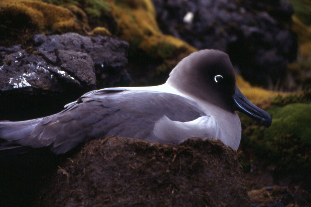 Light-mantled Albatross Phoebetria palpebrata. West coast of Kerguelen (Railler du Baty).